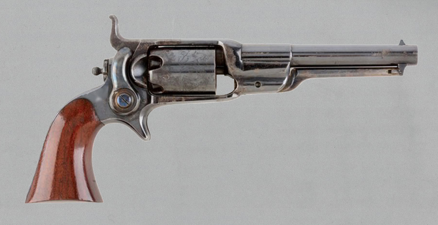 Colt rnd Bbl 4.5 inch